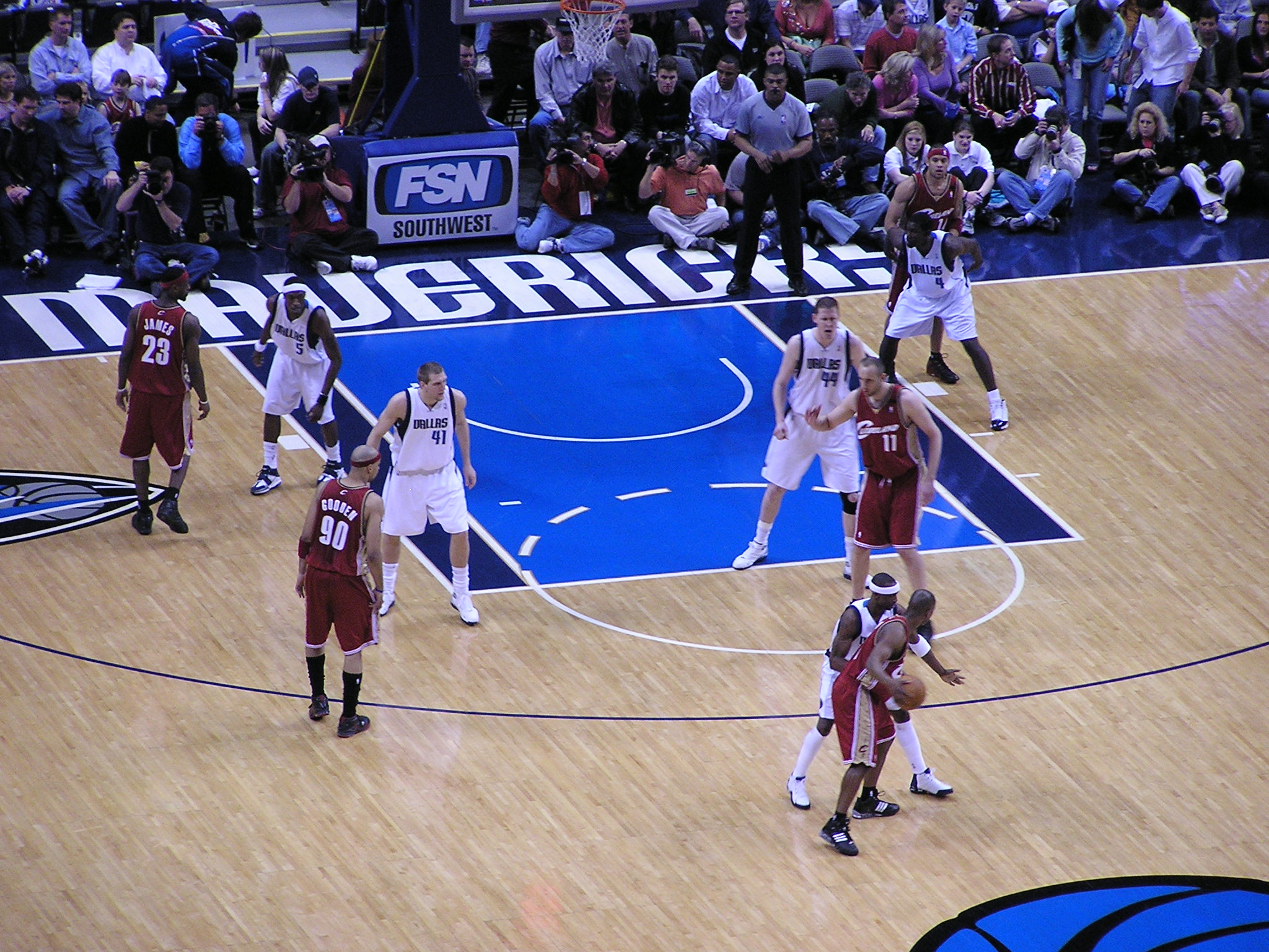 Dallas Mavericks at Cleveland Cavaliers game